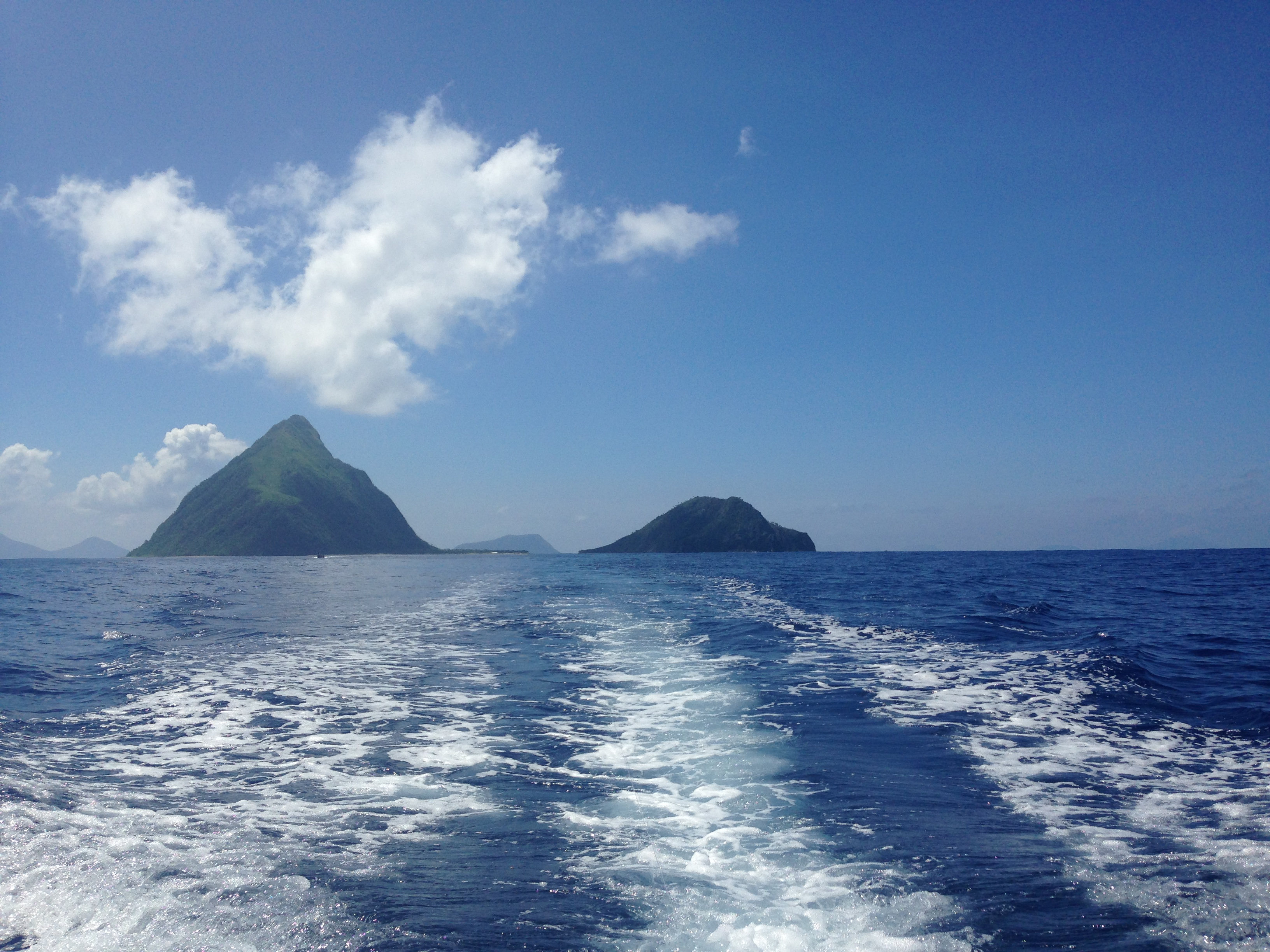 Mataso Island, on Boat view.